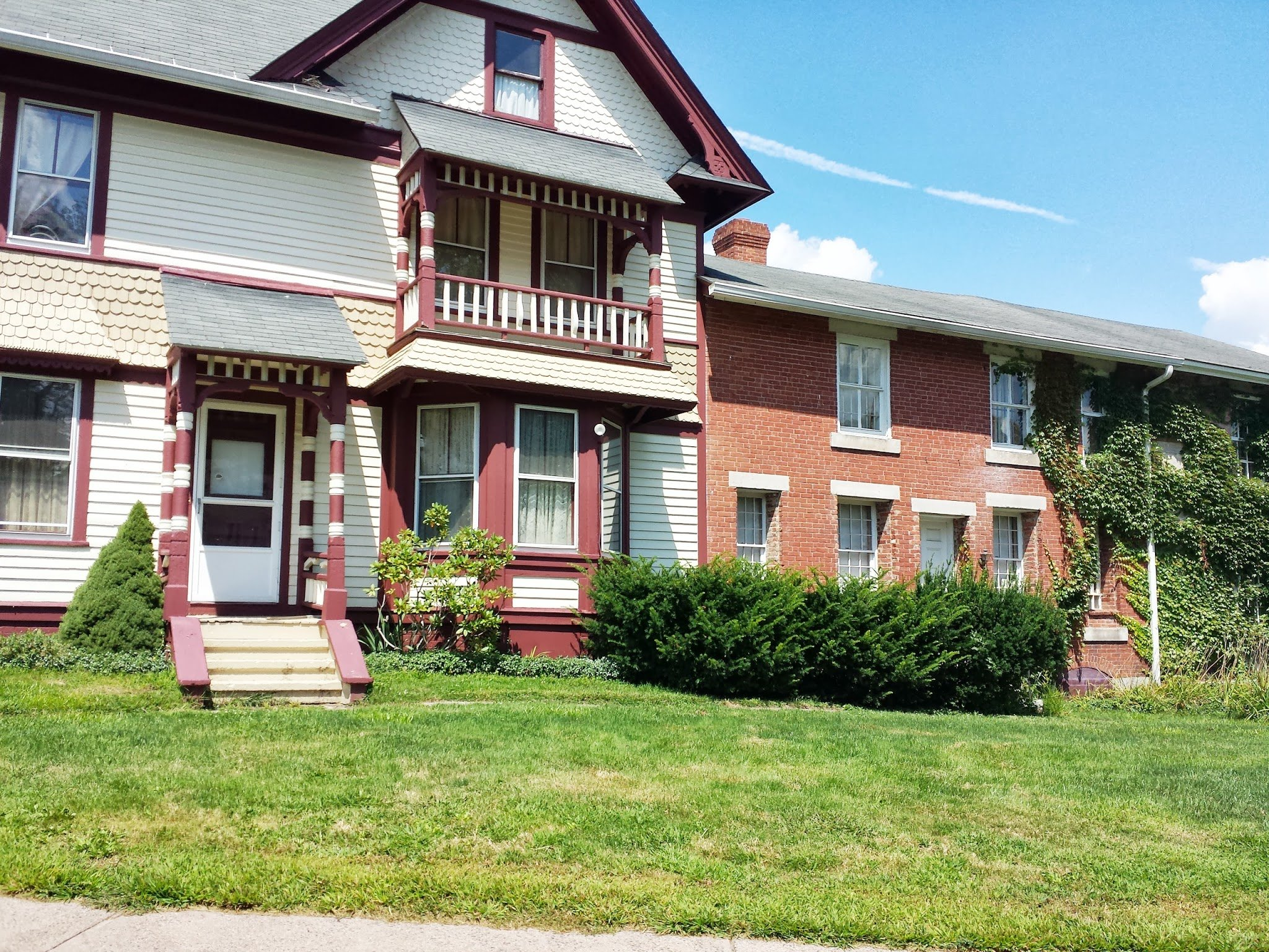 This is more of a side view of the Old Tolland County Jailhouse in Tolland, CT.